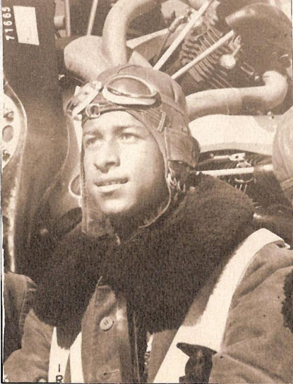 Ahmed Ali (Çelikten) with flight cap